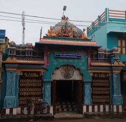 Kumbakonam sundaramaha kaliamman temple கும்பகோணம் சுந்தரமகா காளியம்மன் கோயில்